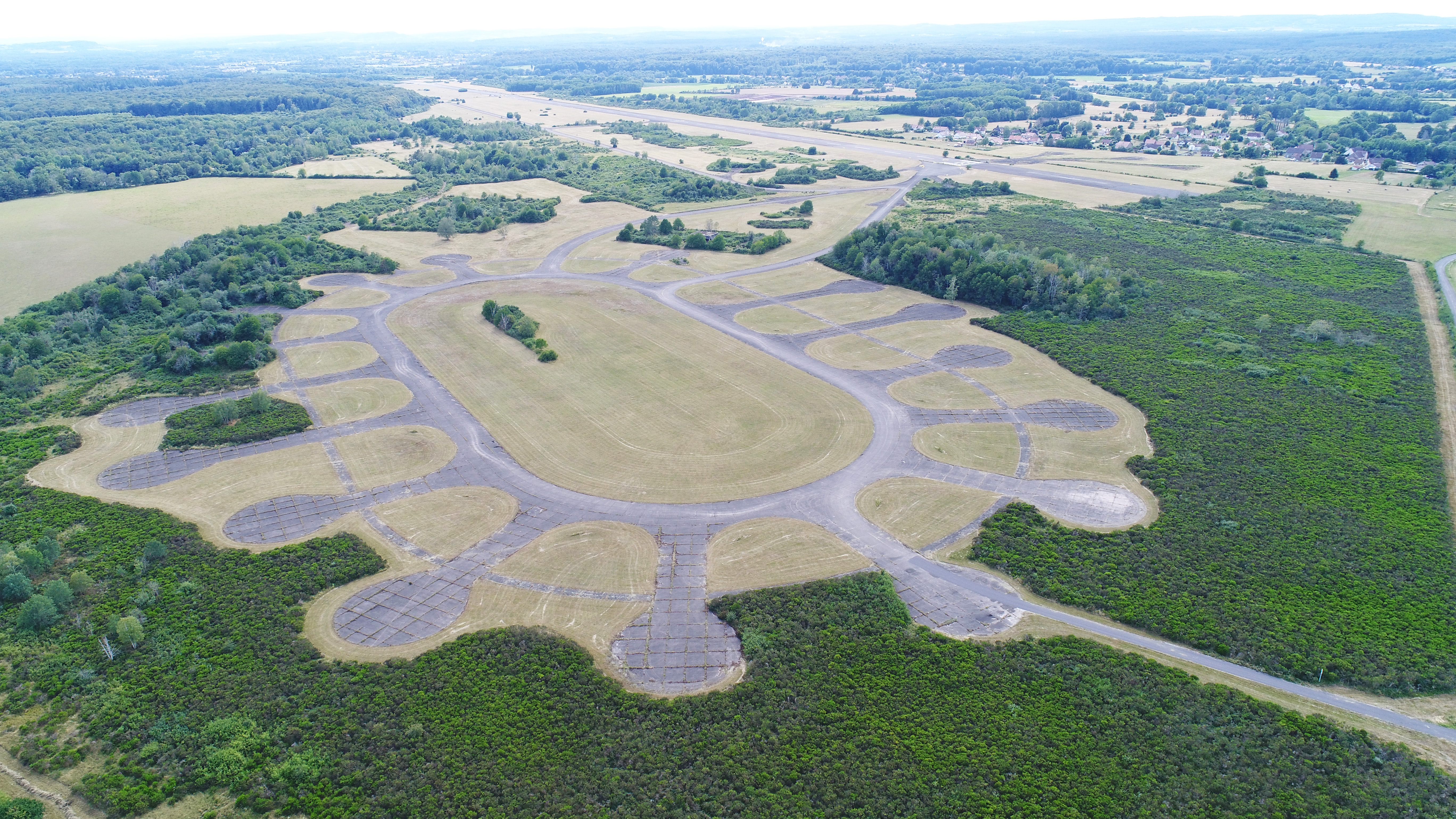 L'ancien aérodrome militaire désaffecté de Lure - Malbouhans.